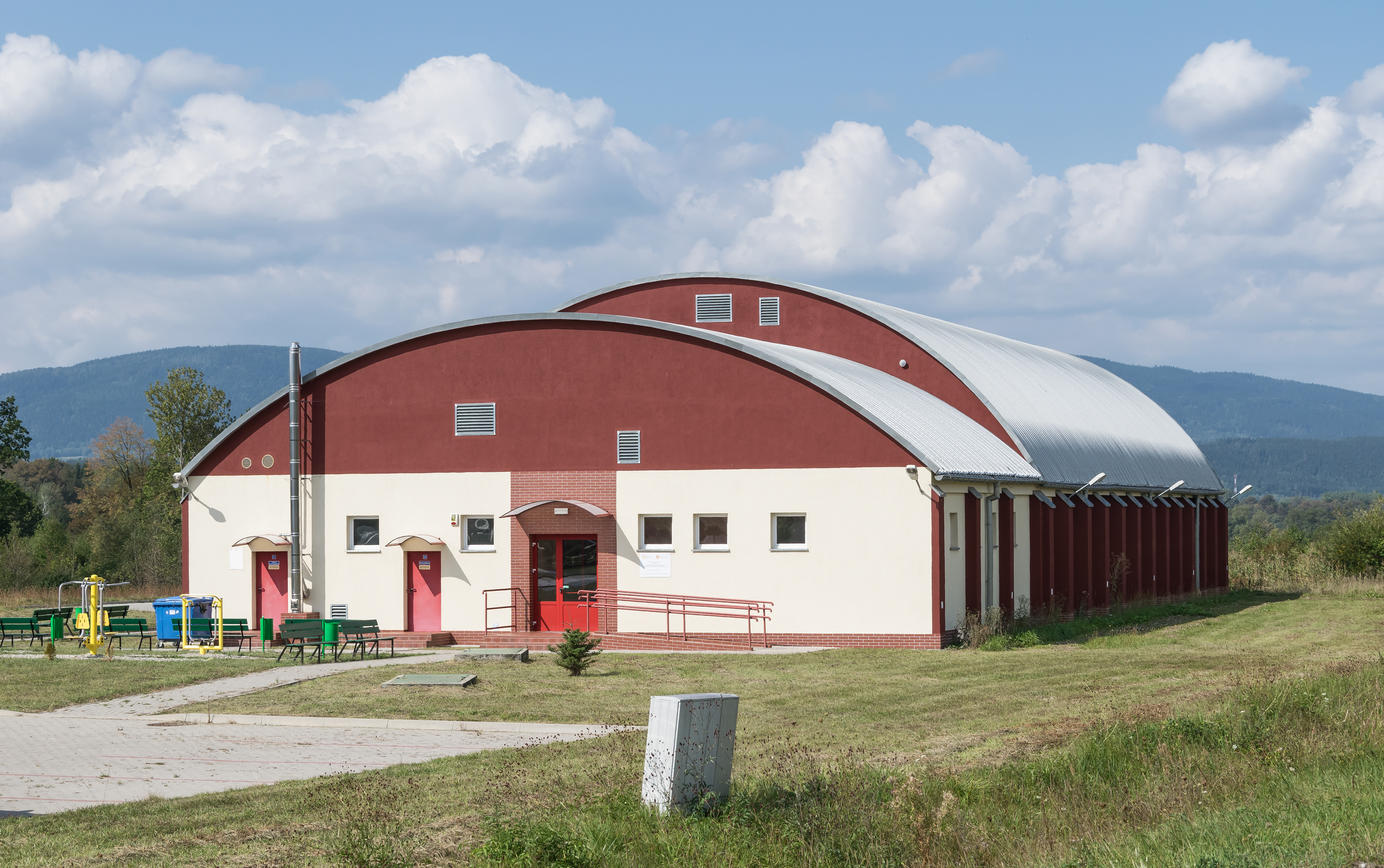 School gymnasium in Wilkanów